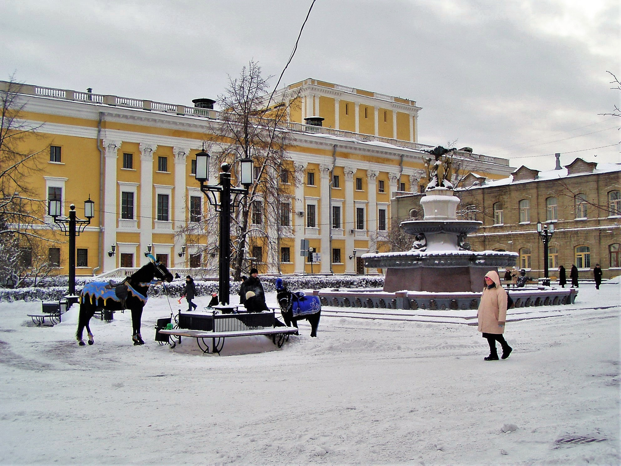 Shopping street in Chelyabinsk (Ural, Russia)